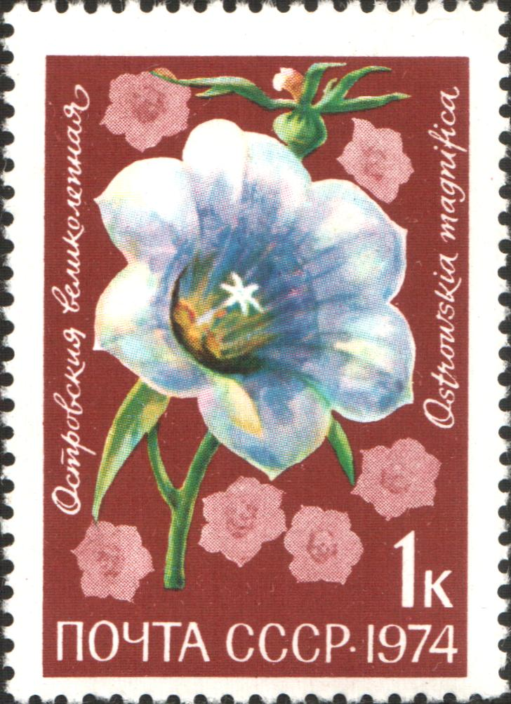 USSR stamp